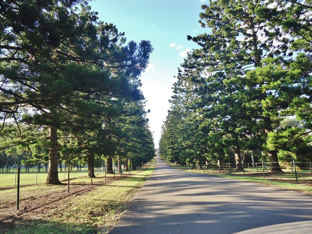 Entry to Prospect Reservoir from William Lawson Drive. The avenue has over 90 hoop pines.